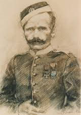 Michael Murphy VC (1837-1893) c1858